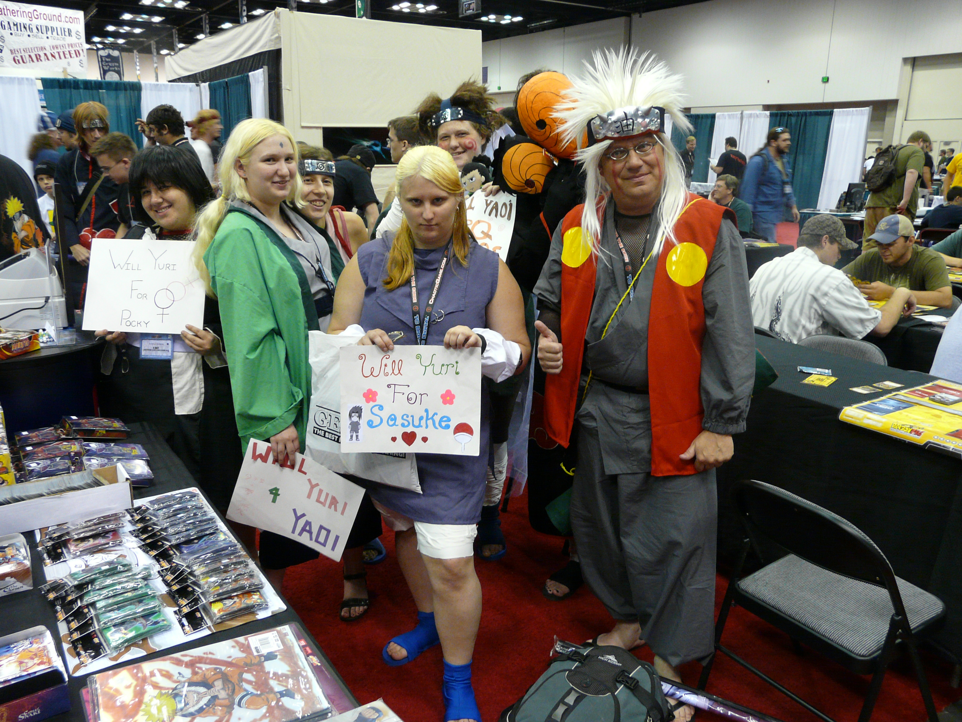 Picture of Gen Con Indy 2008 in Indianapolis, Indiana, USA.